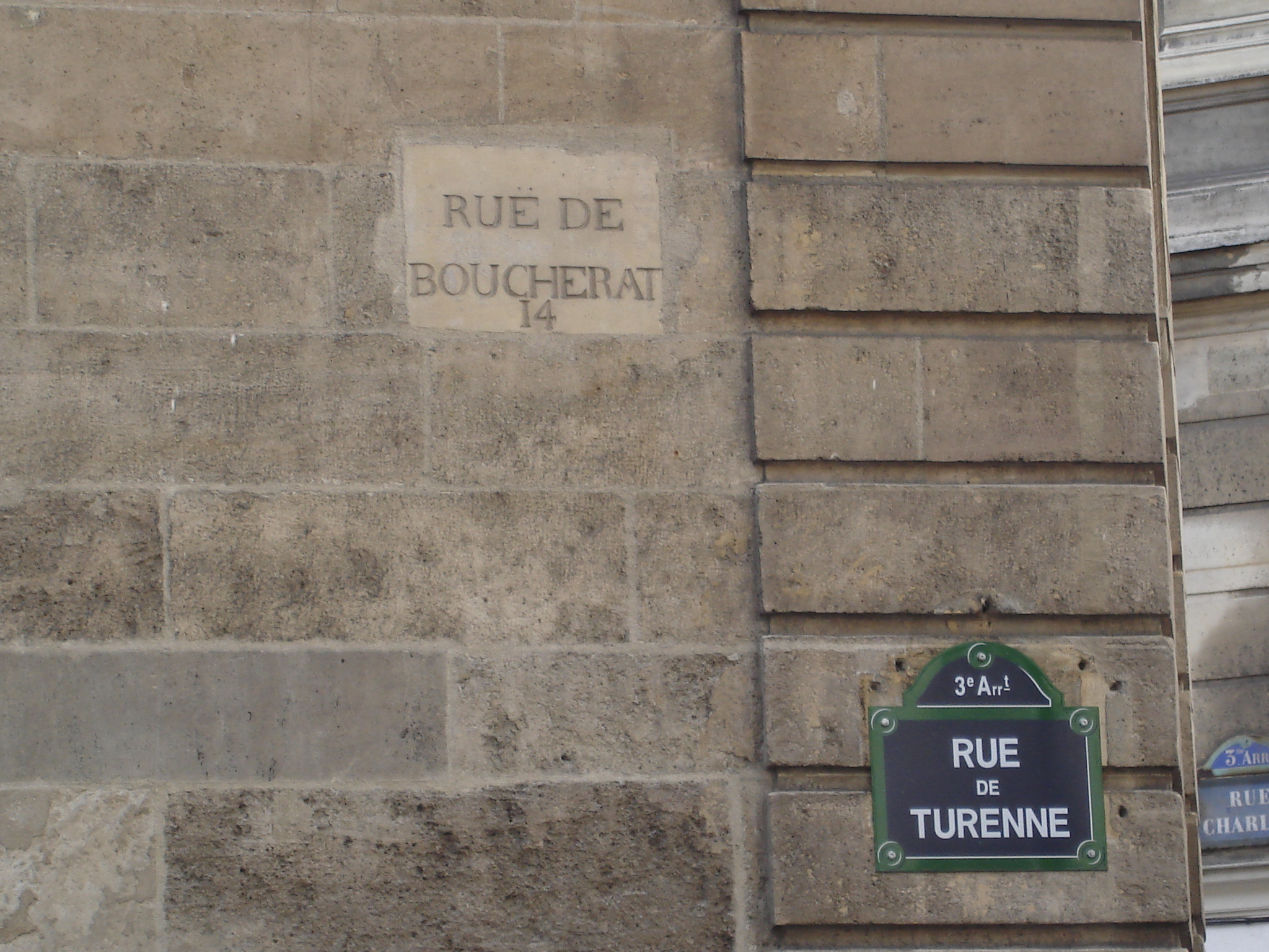 Fontaine Boucherat, rue de Turenne in Paris. Engraving of the old name of the street, with the new street sign.